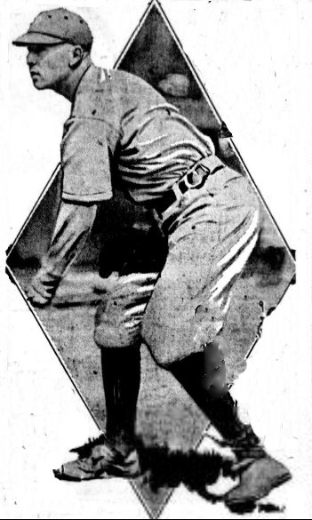 Cropped from the newspaper image shown. Removed the cartoons around the original image, cropped and healed using GIMP